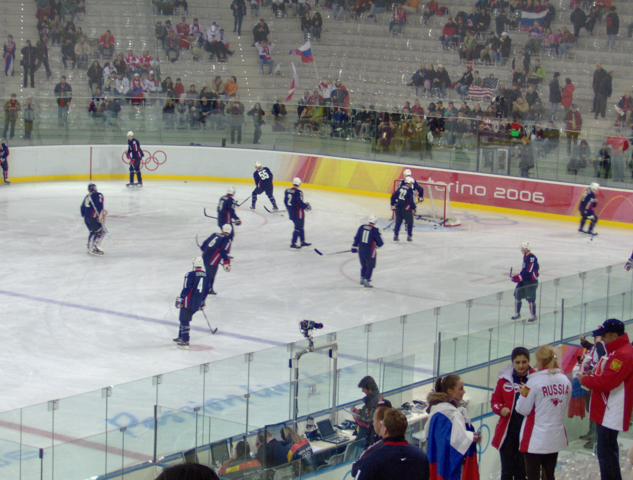 Running up of American hockey national team before Russia-USA (at Torino 2006)